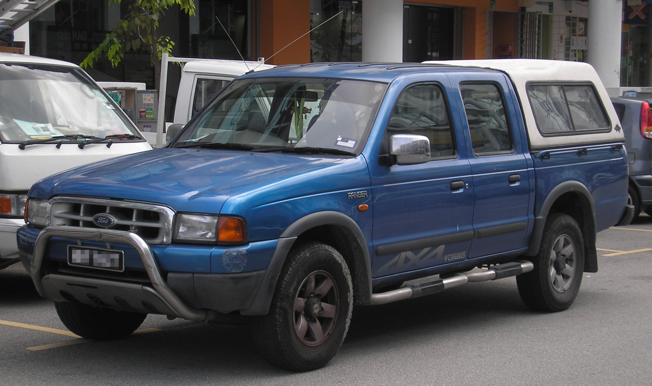 Front-side shot of a first generation Ford Ranger (Southeast Asian) (with a camper shell-covered truck bed), in Serdang, Selangor, Malaysia.